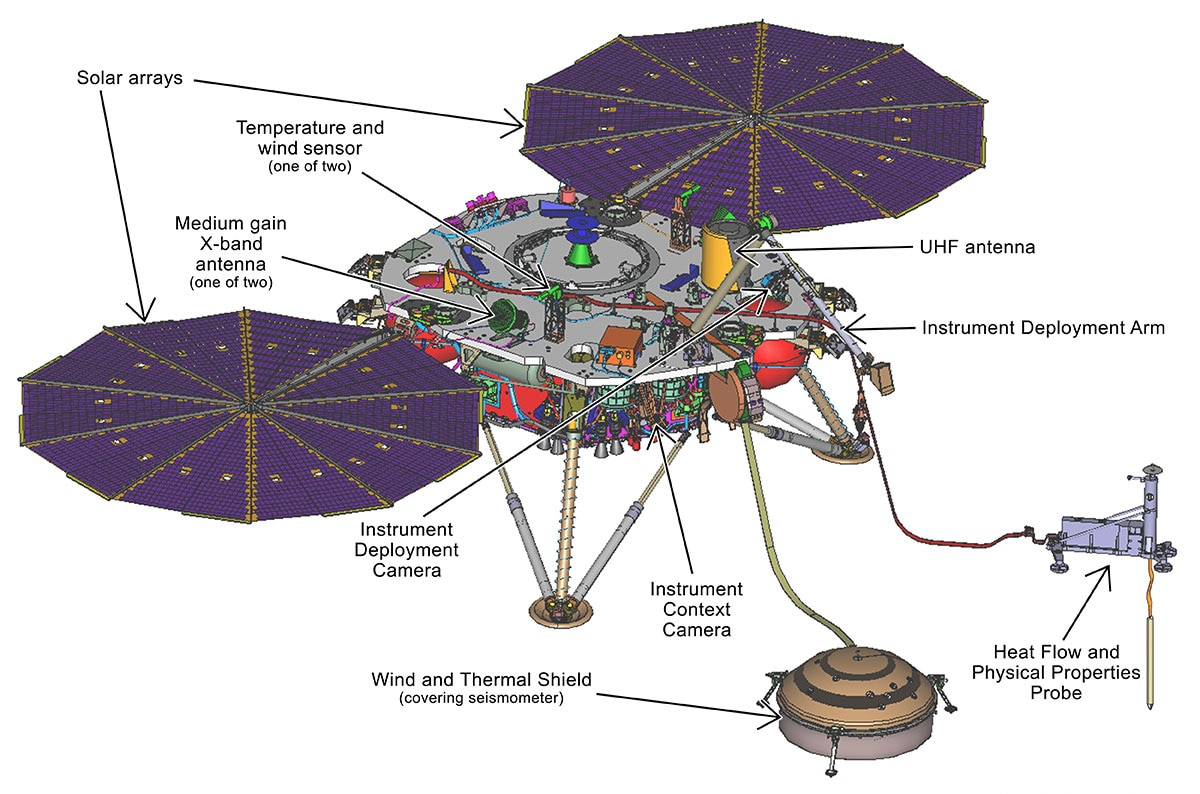 The InSight lander's deployed configuration, south would be toward lower right at the Martian work site, with tethered instruments on the ground and the heat probe's mole underground